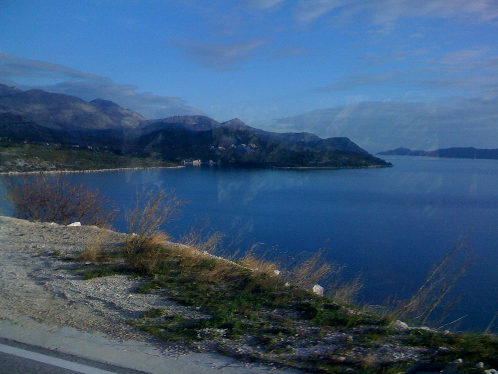 Dubrovačko Primorje